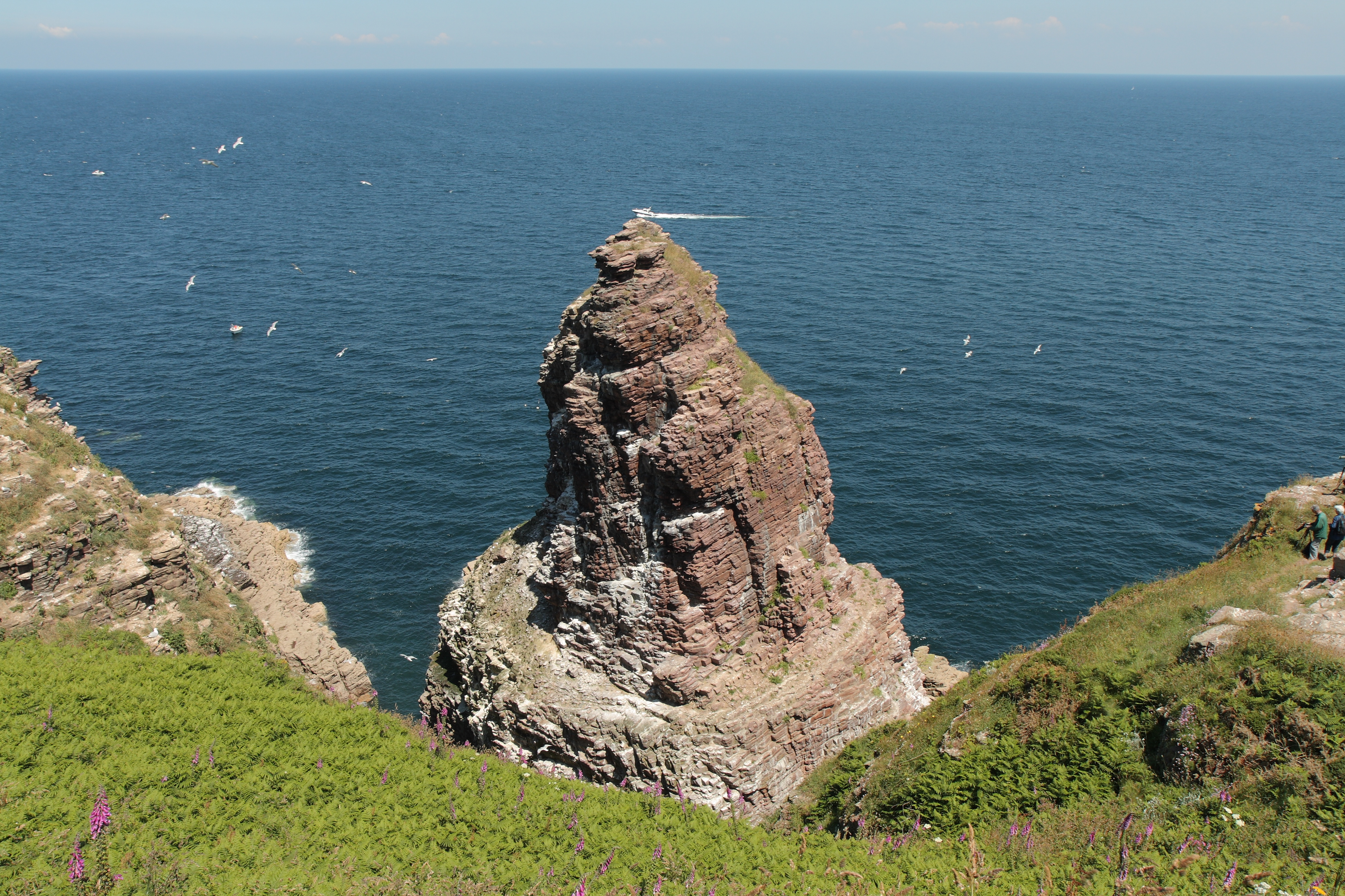 Cap Fréhel peninsula's cliffs, Brittany, west France